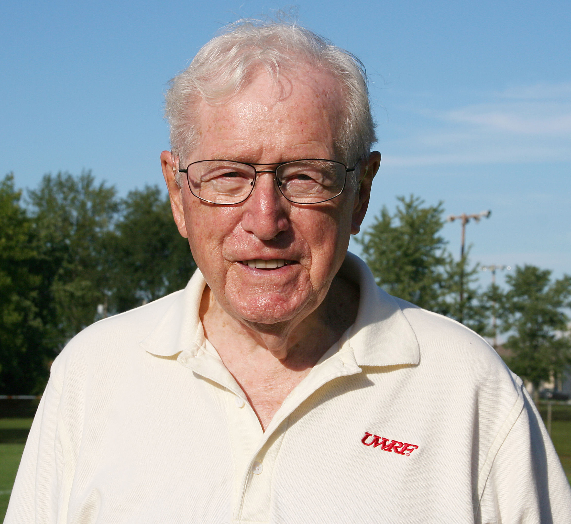 Dr. Otis R. Bowen, retired governor of Indiana and secretary of Health and Human Services.